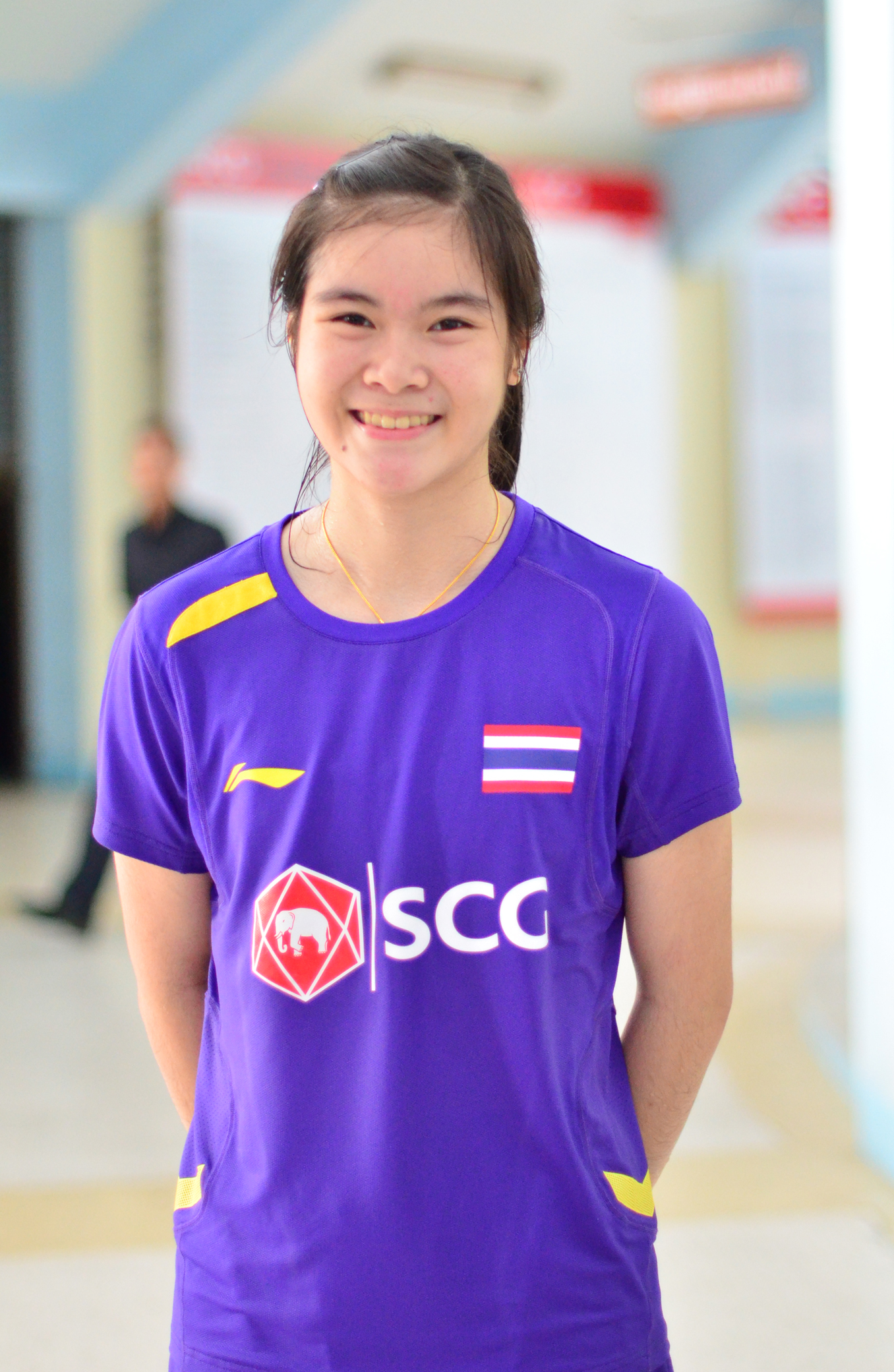 Busanan Ongbumrungpan